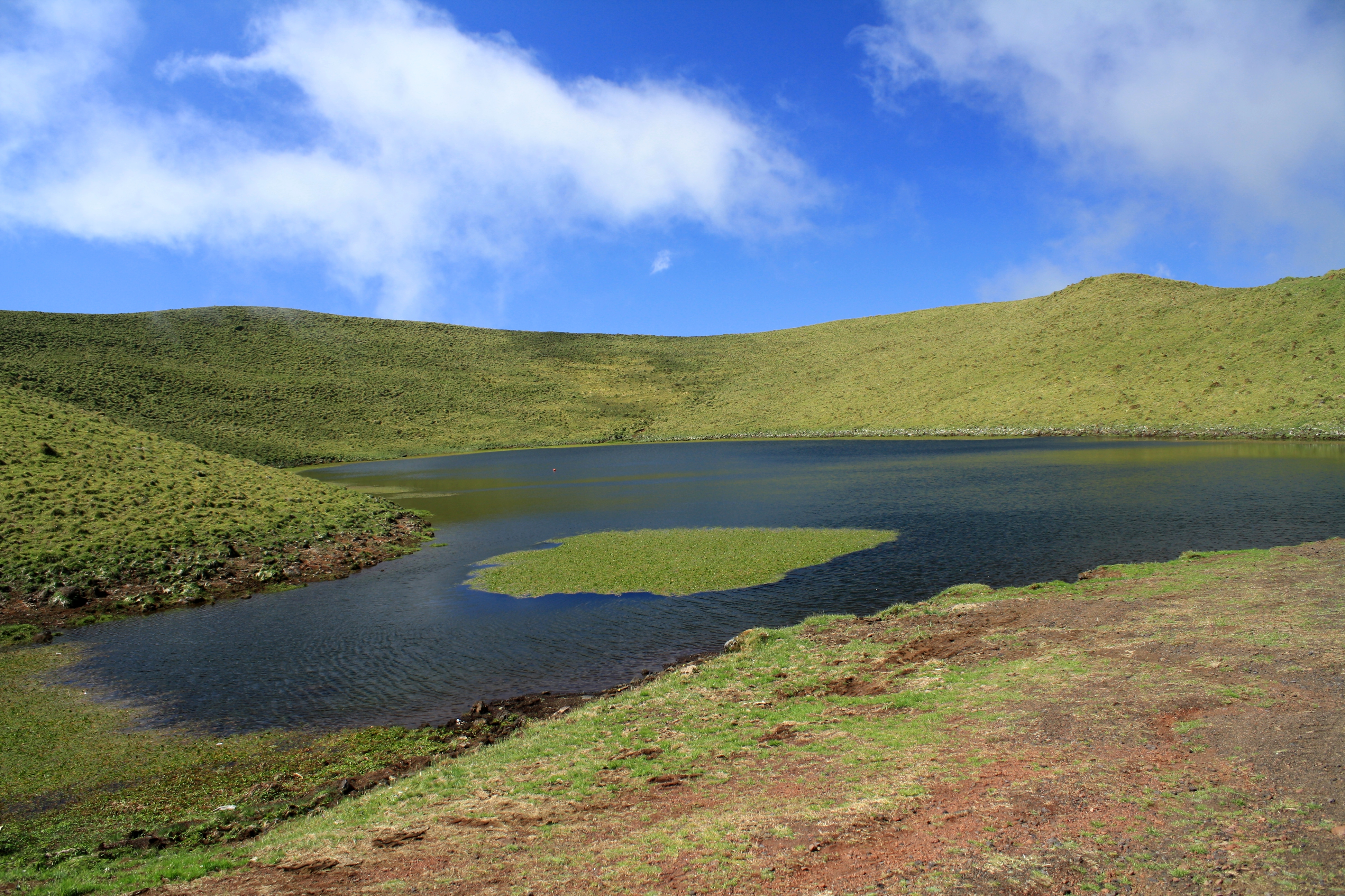 Lagoa da Rosada, located in the municipality of Lajes do Pico, island of Pico, Azores (Portugal)